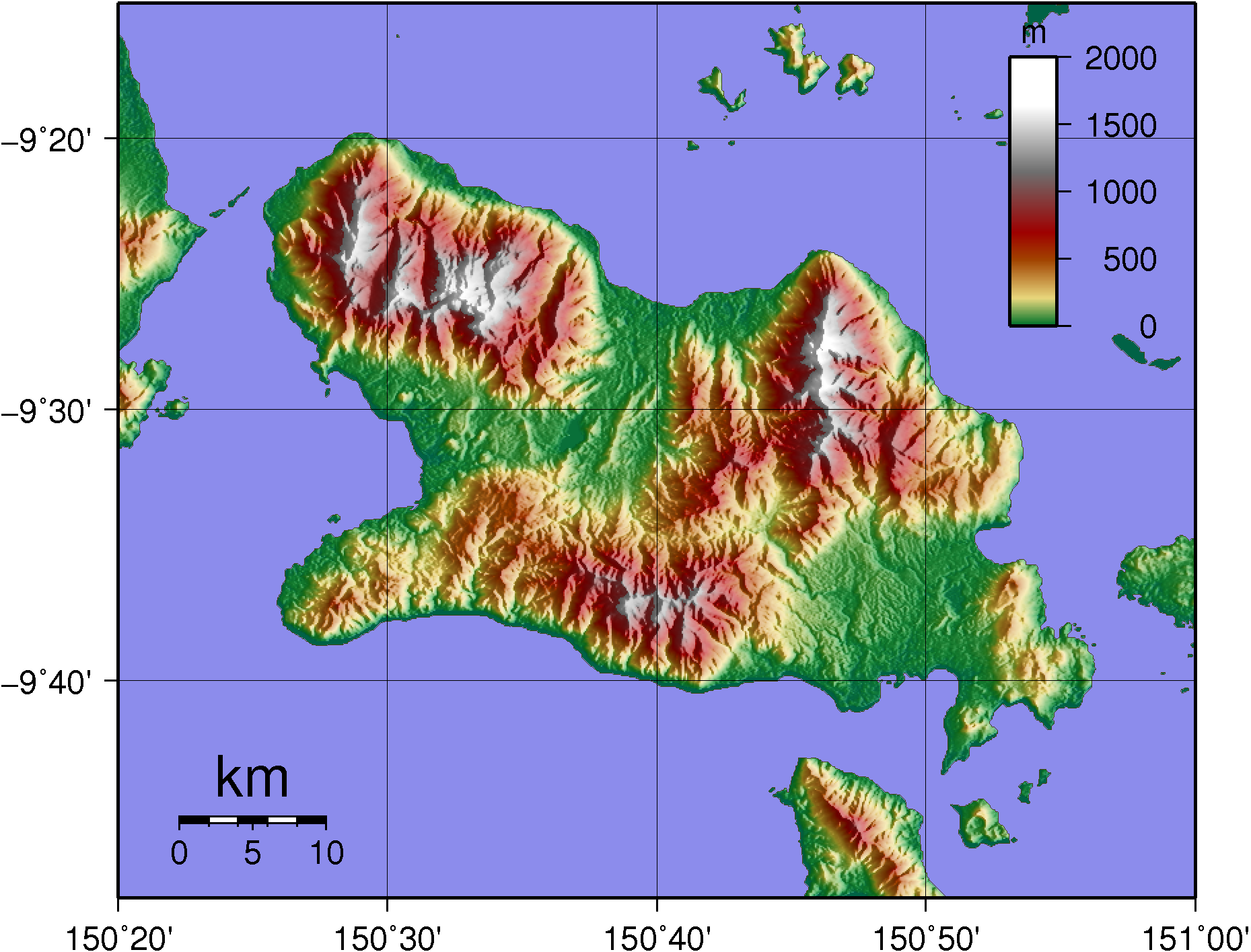 Topographic map of Fergusson Island in D'Entrecasteaux Islands